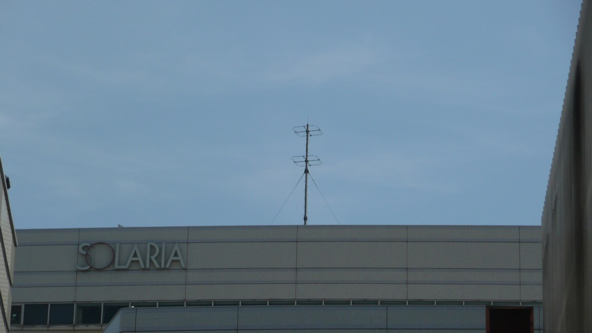 JOZZoAA-FM (Tenjin FM - Free Wave) Antenna (Solaria Plaza - Fukuoka, Japan)